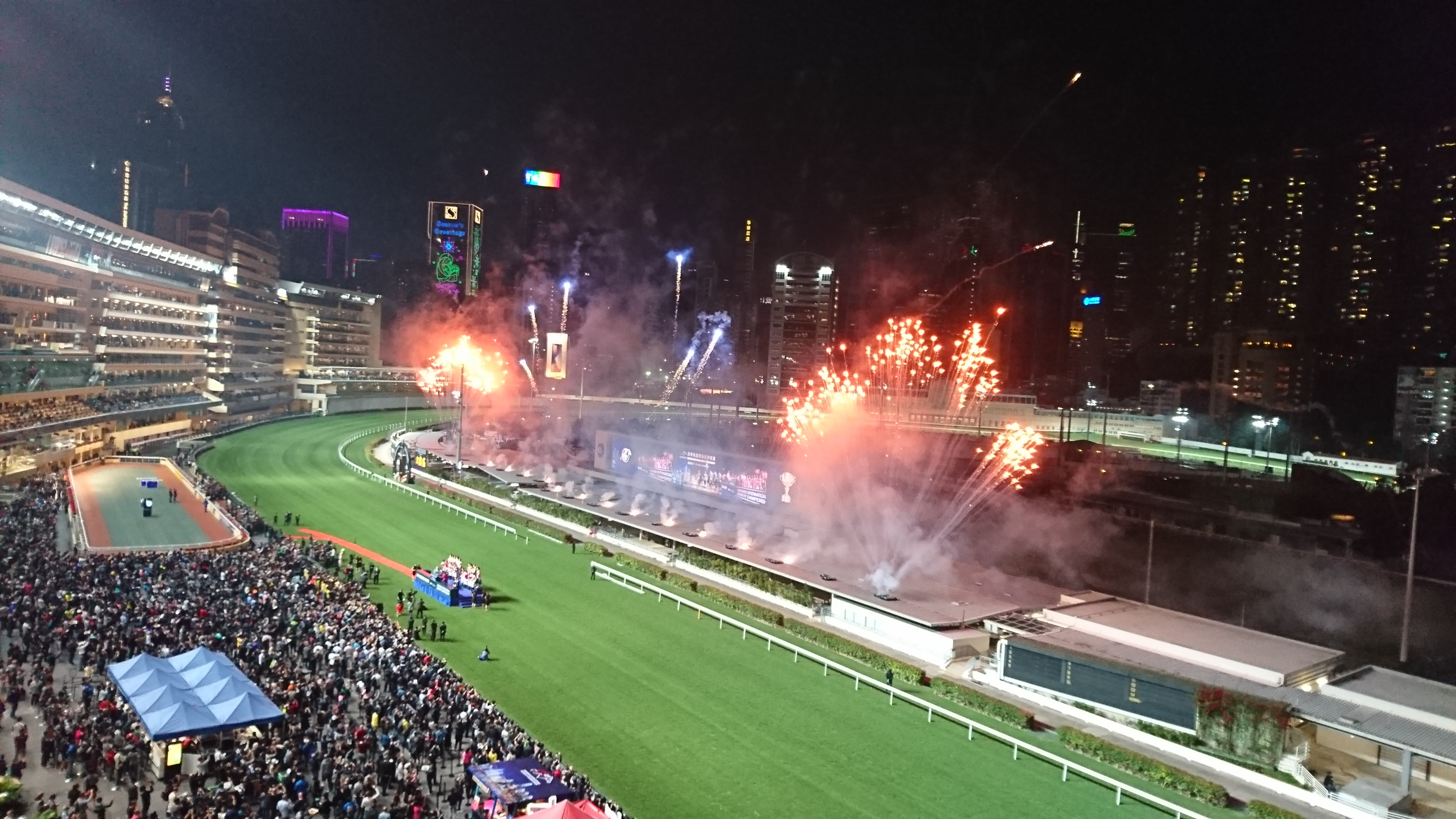 International Jockey Championship Fiework